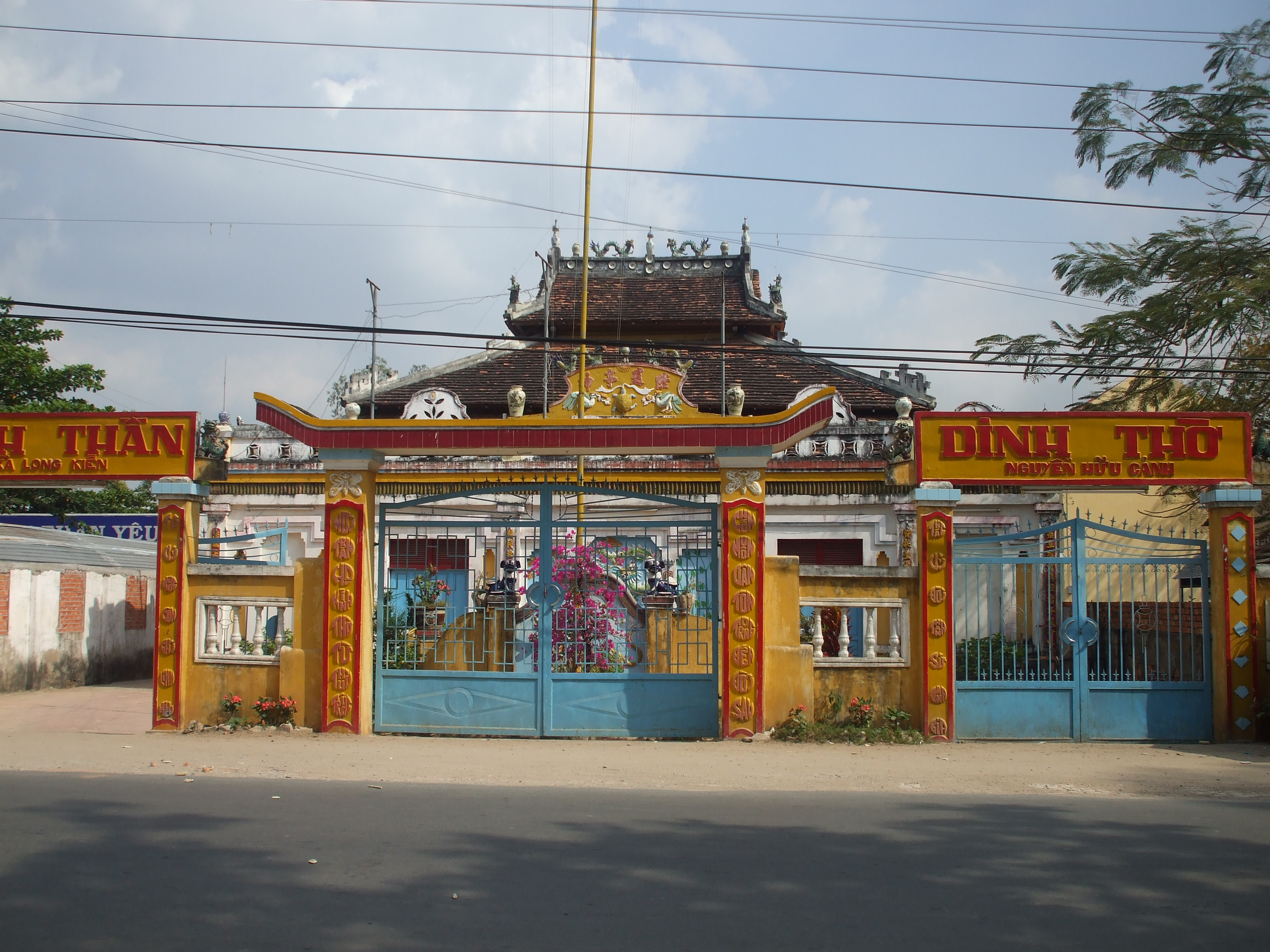 Long Kien Communal House, also a shrine for Nguyễn Hữu Cảnh in Long Kien, An Giang Province, Vietnam